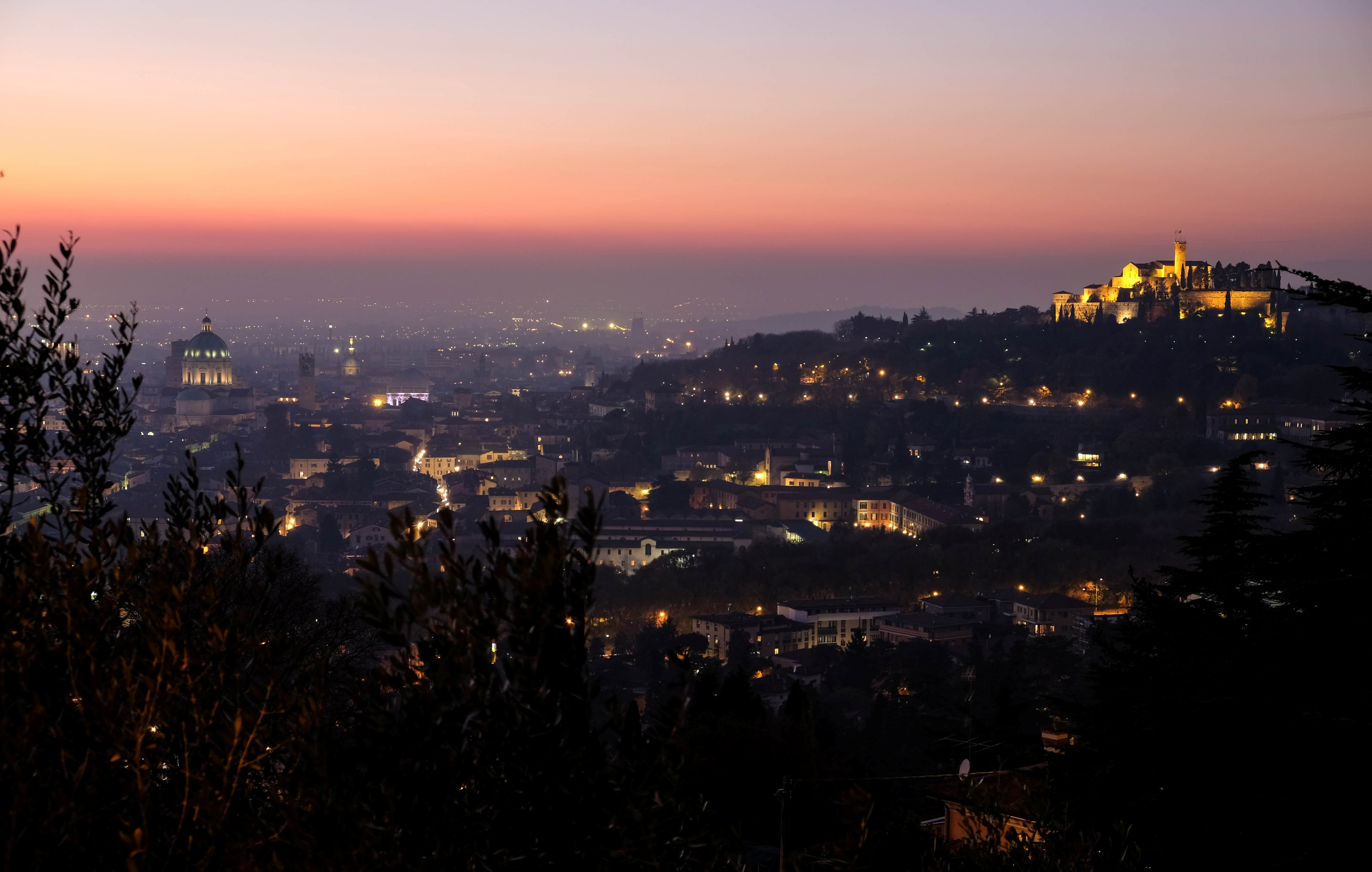 Brescia 1 cropped to remove author's signature